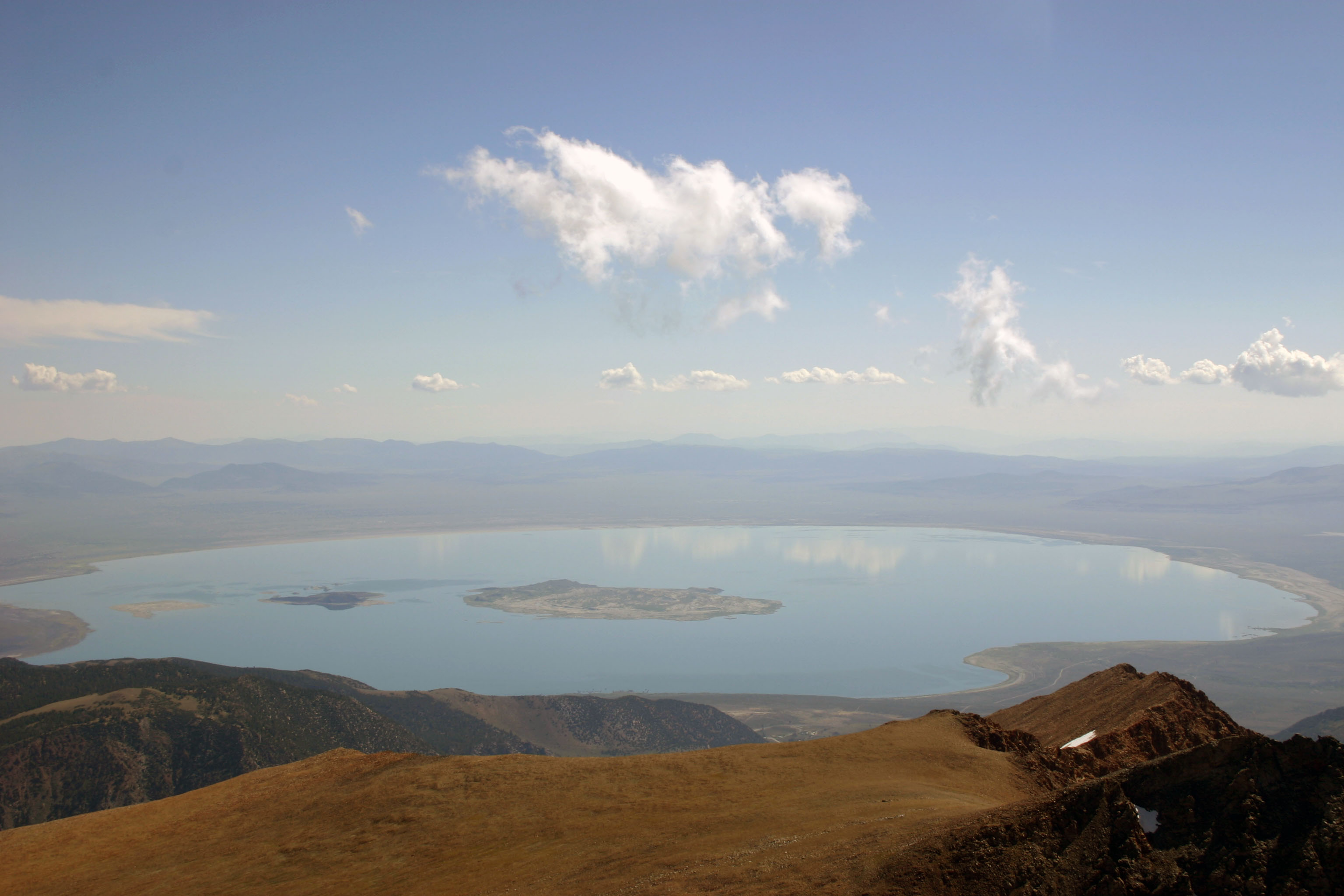 Photo of Mono Lake, taken from above Mount Dana, California